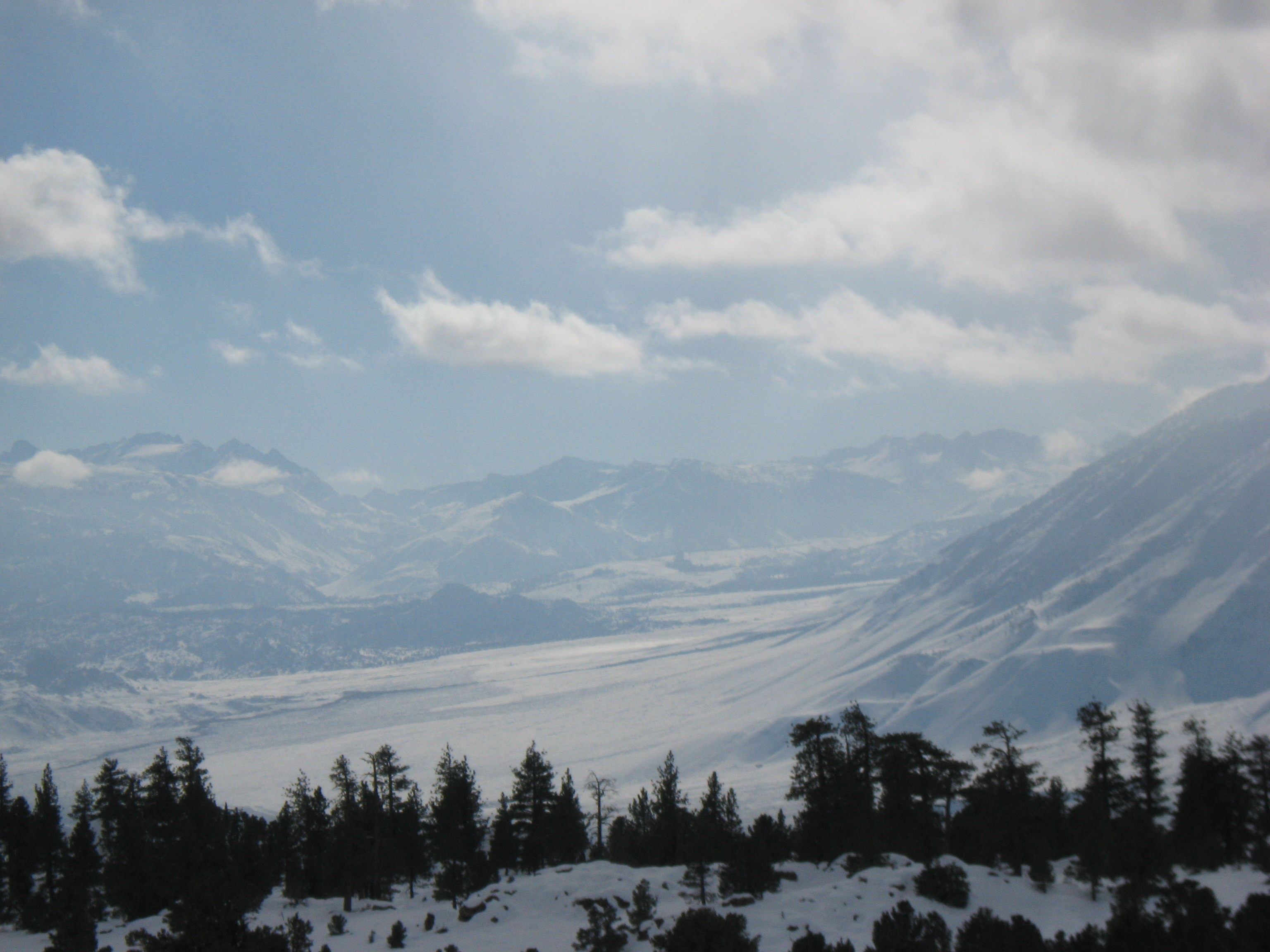 View of the Eastern Sierra and a large field from U.S. Route 395 in California, as we descend toward Bishop, California from north. A lot of Western movies were filmed in and around Lone Pine, which is approximately 60 miles south of Bishop. I don't know if any films were made at this particular location in the photo, but it reminds me (the photographer) of Westerns every time I pass here. For those who are interested, there is a film history museum in Lone Pine right on the 395 (where it's called Main Street).